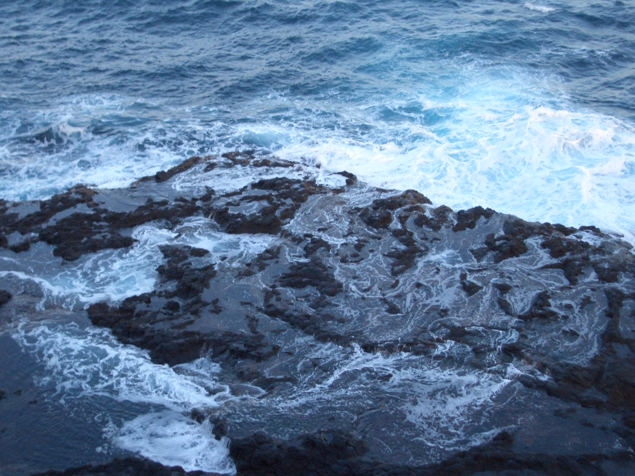 Phillip Island's Beach, taken in August 2006